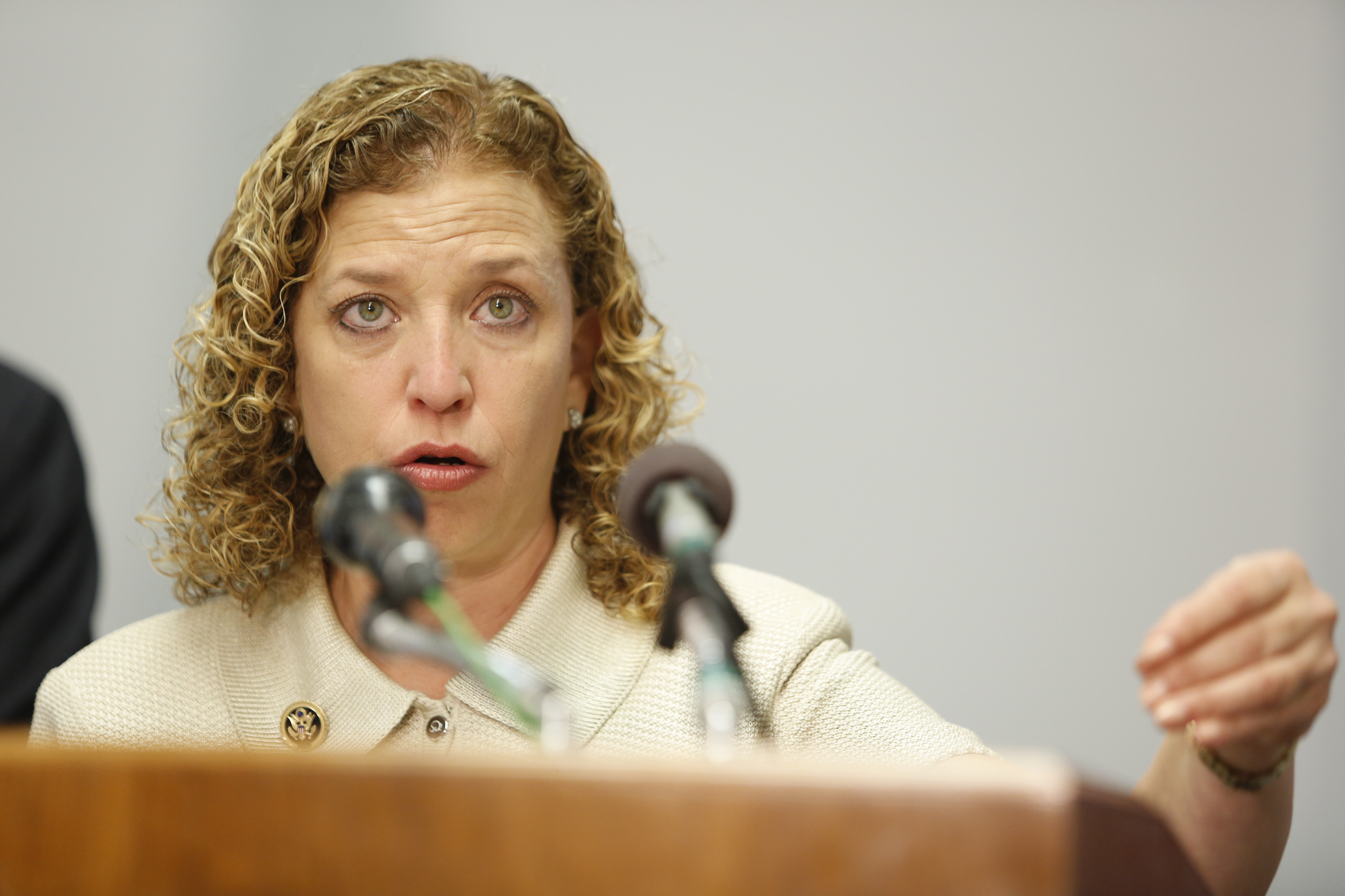 Rep. Wasserman Schultz address the media at the 2015 Summer Kickoff event.